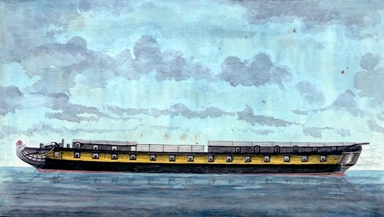 Revolutionaire 1799, portside view, hull only